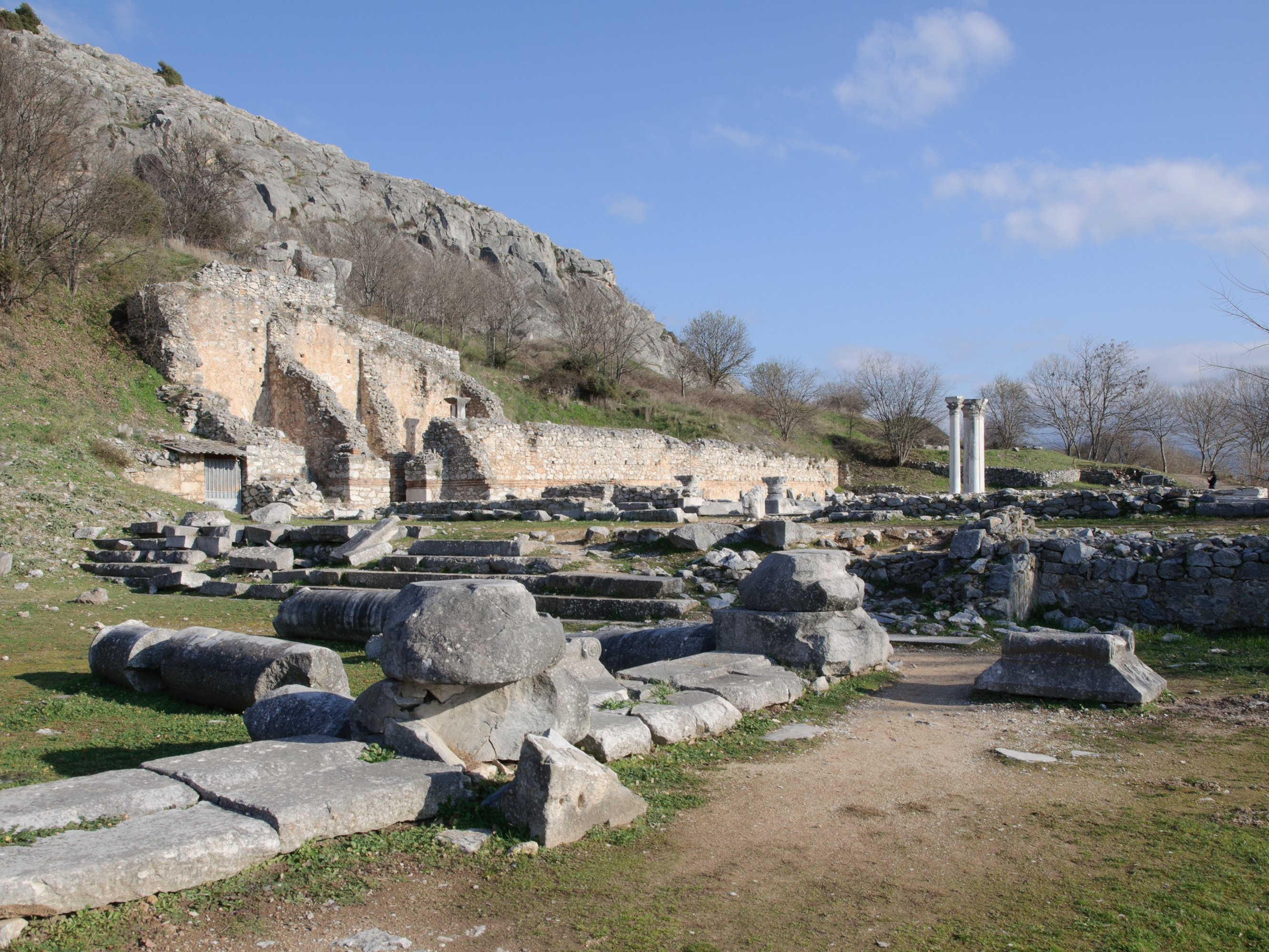 The archaeological site of Basilica A in the ancient town of Philippi, Greece.